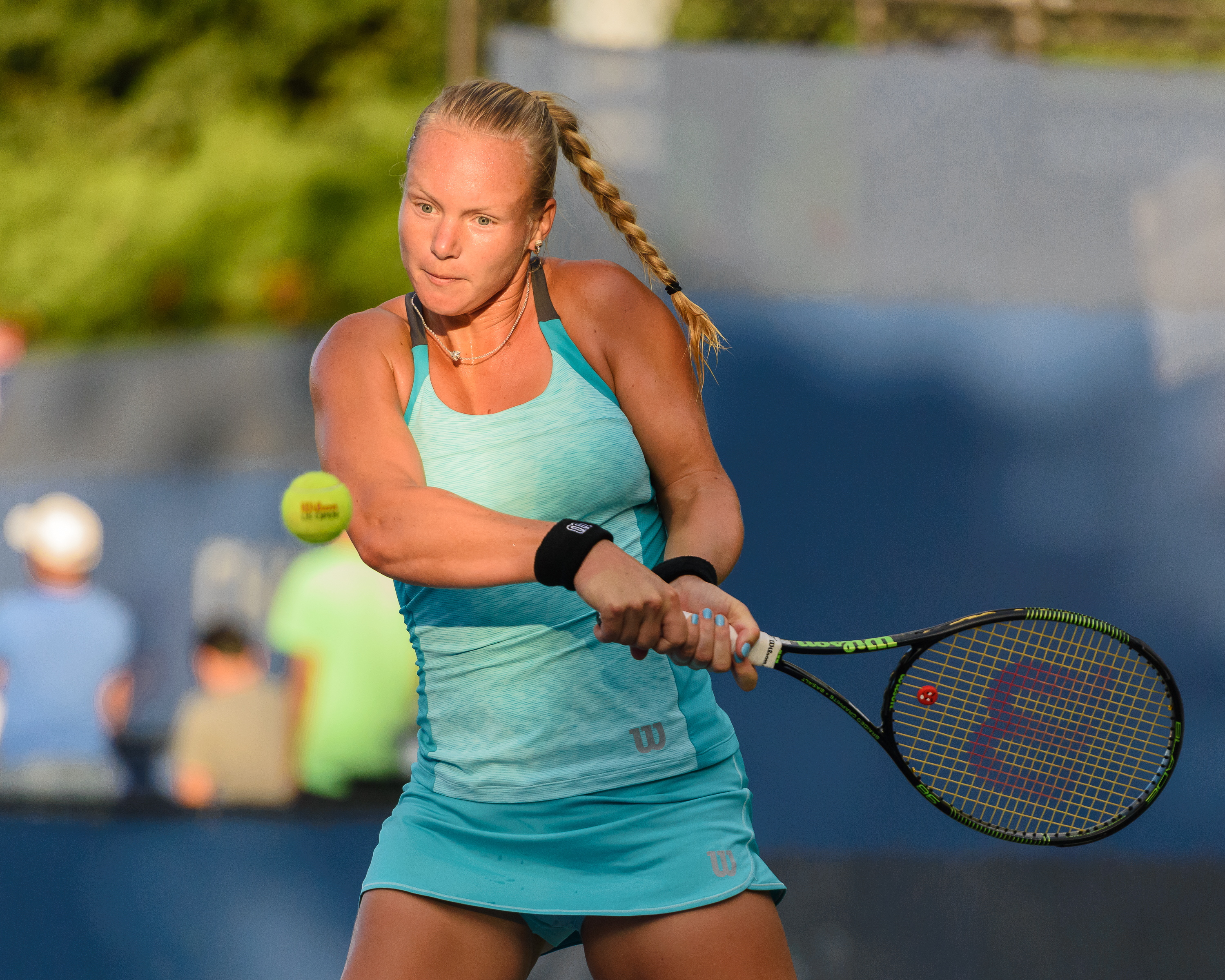 August 27, 2015 Court 13 Flushing, NY